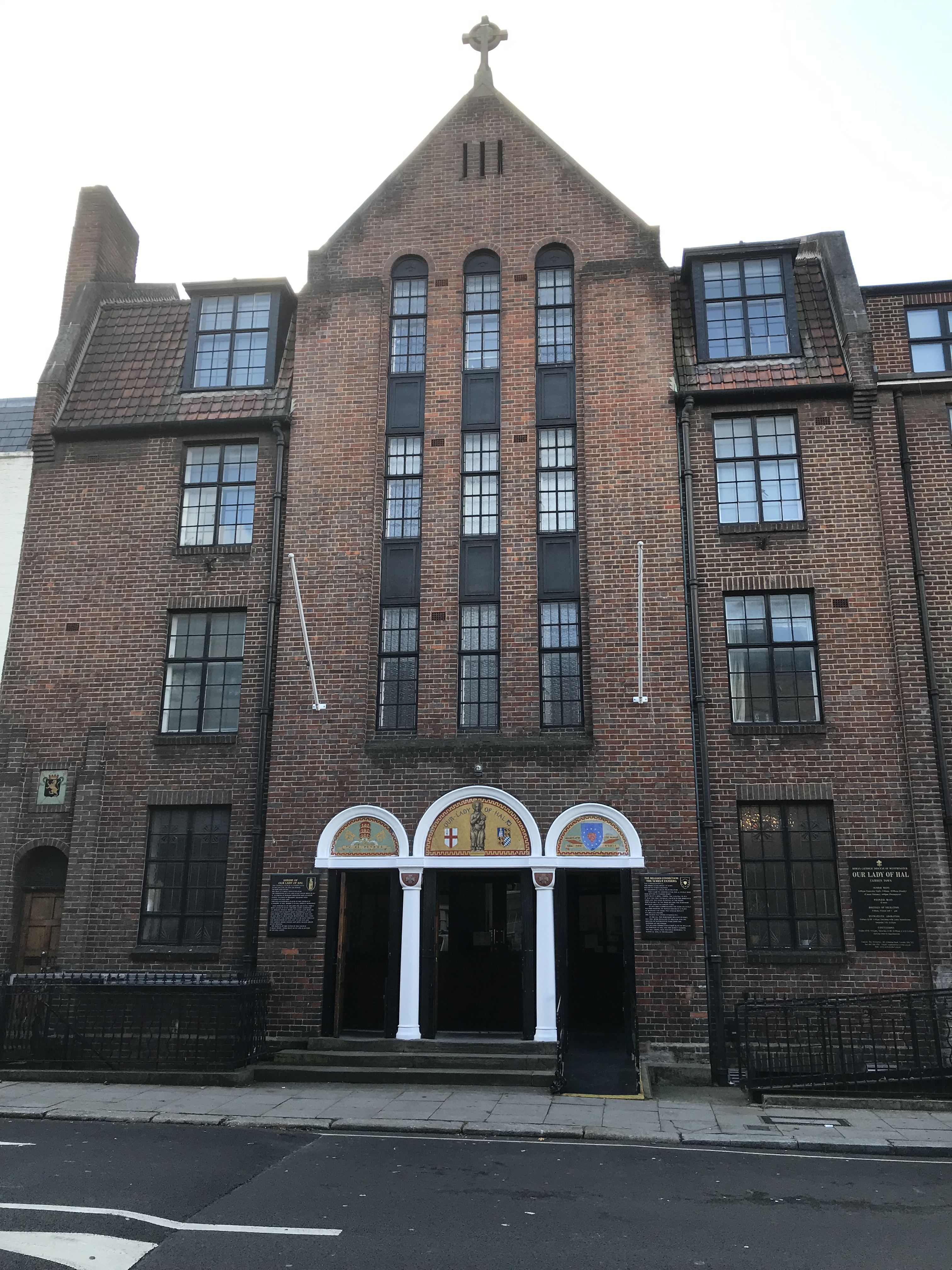 The exterior of the Roman Catholic church of Our Lady of Hal completed in 1933 on Arlington Road in Camden Town